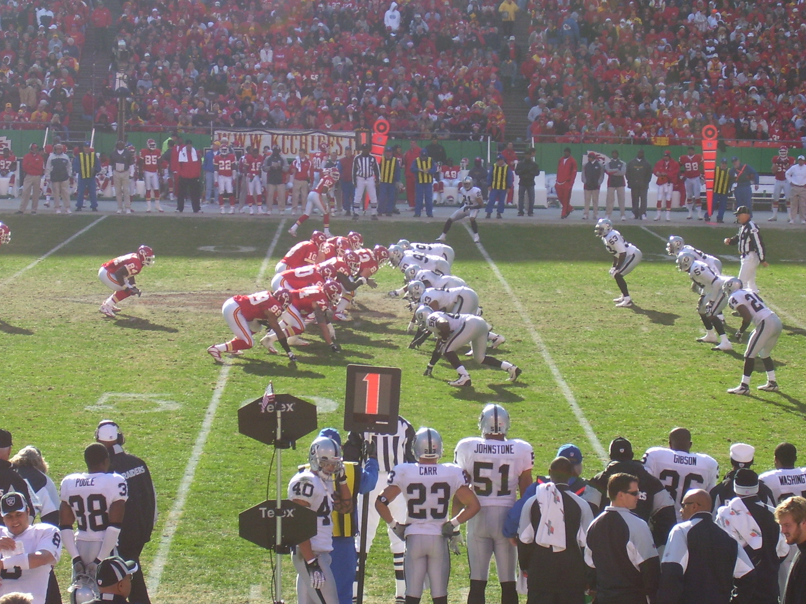 Chiefs vs. Raiders at Arrowhead Stadium, Kansas City, MO. Taken on 11 November 2006.